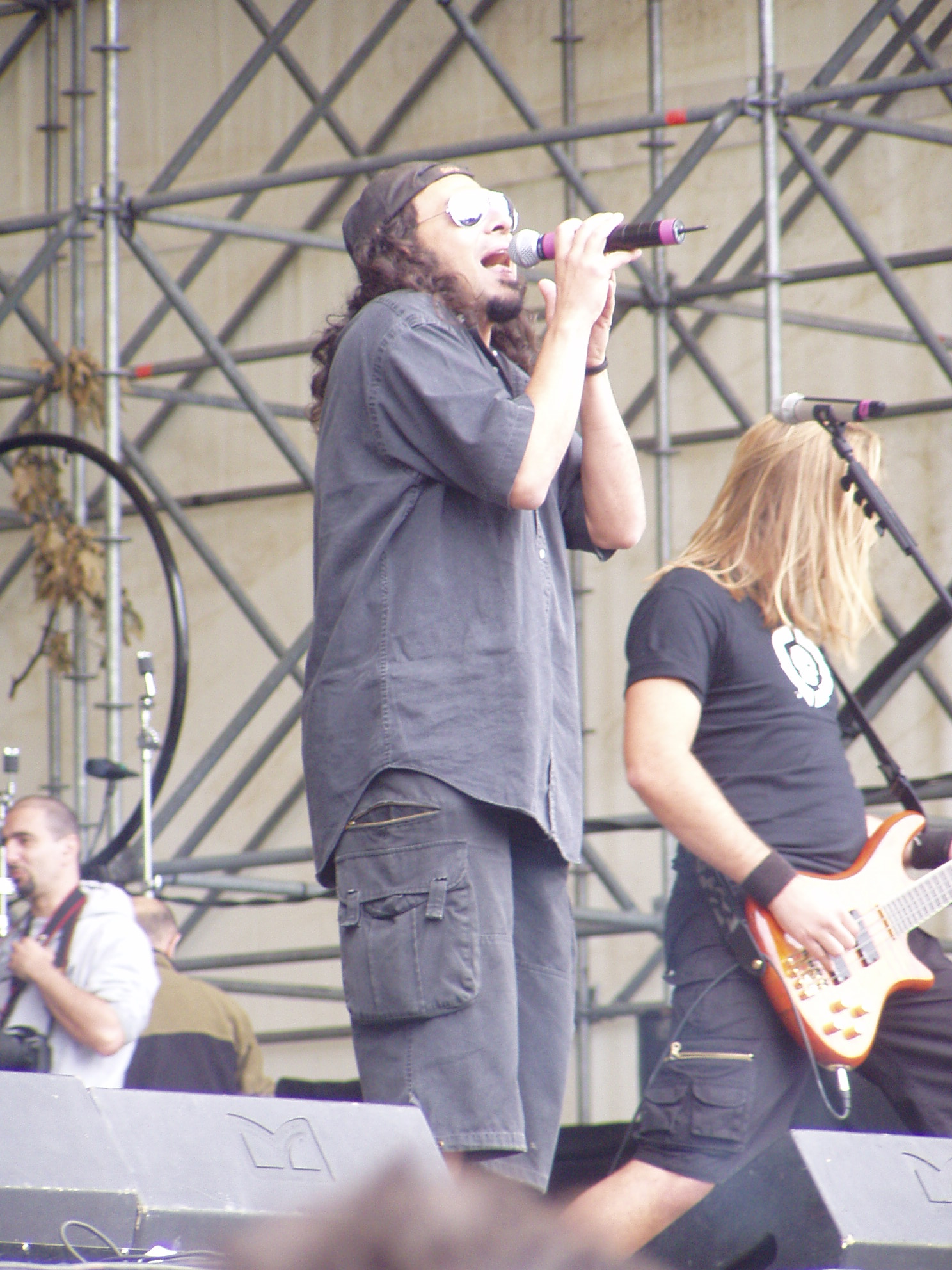 Gli Eldritch al Gods of Metal 2007